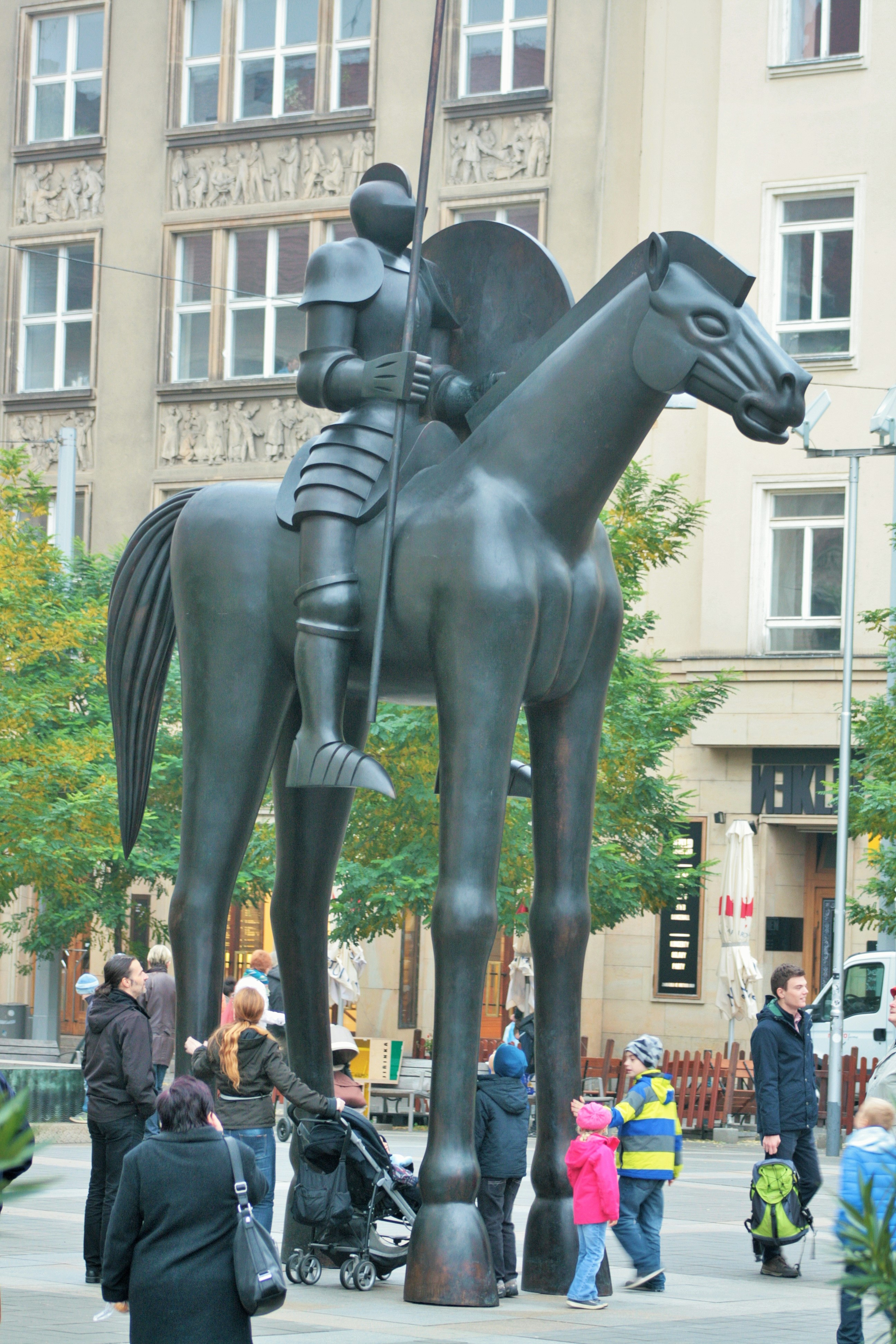 Monumental statue of Jobst of Moravia at Moravian square in Brno, Czech Republic. Author: Jaroslav Róna.